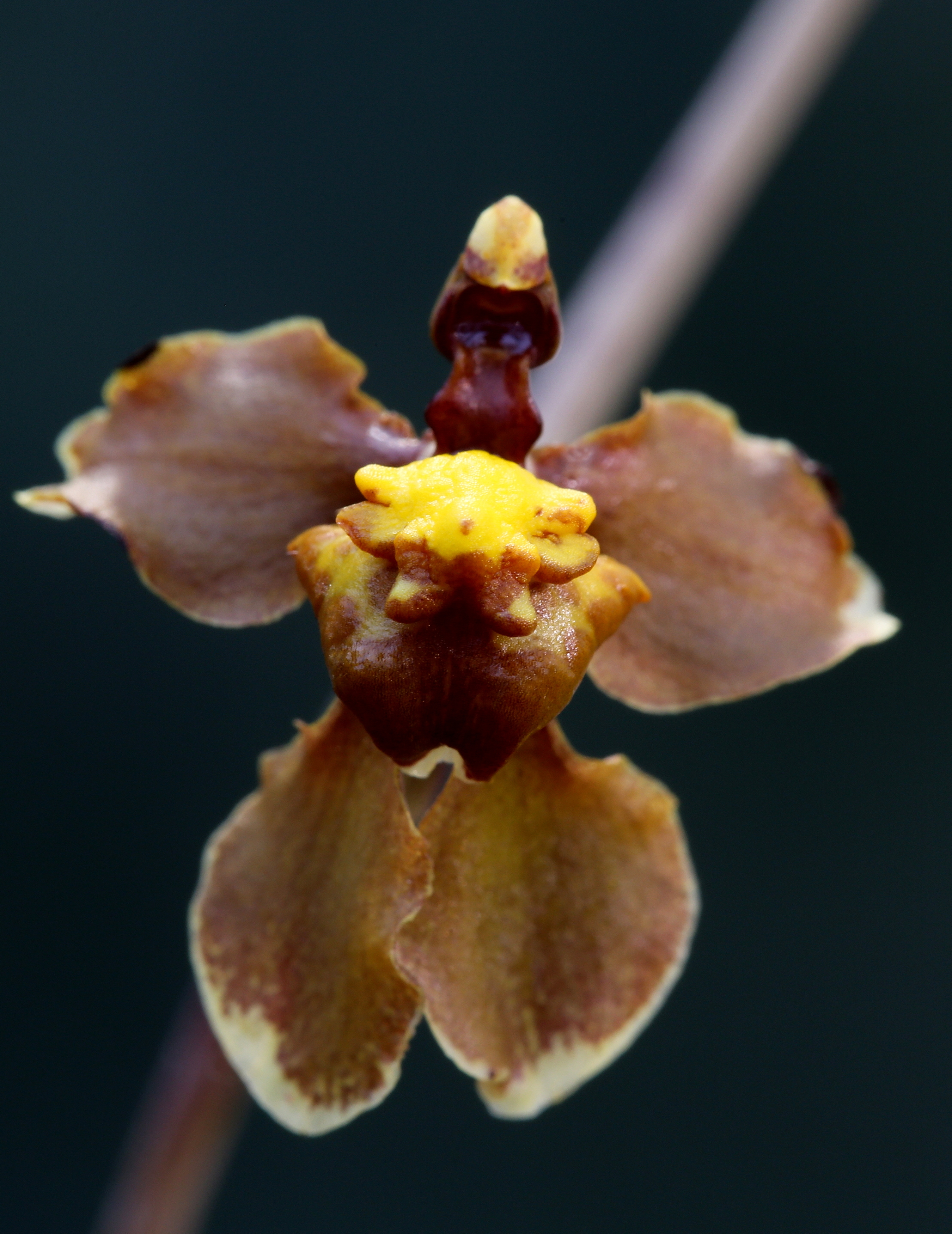 Oncidium cocciferum at Gothenburg botanical garden in 2015. Plant id: 1977-V2589 p W -- Neuendorf